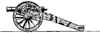 American six pounder field cannon (1775)